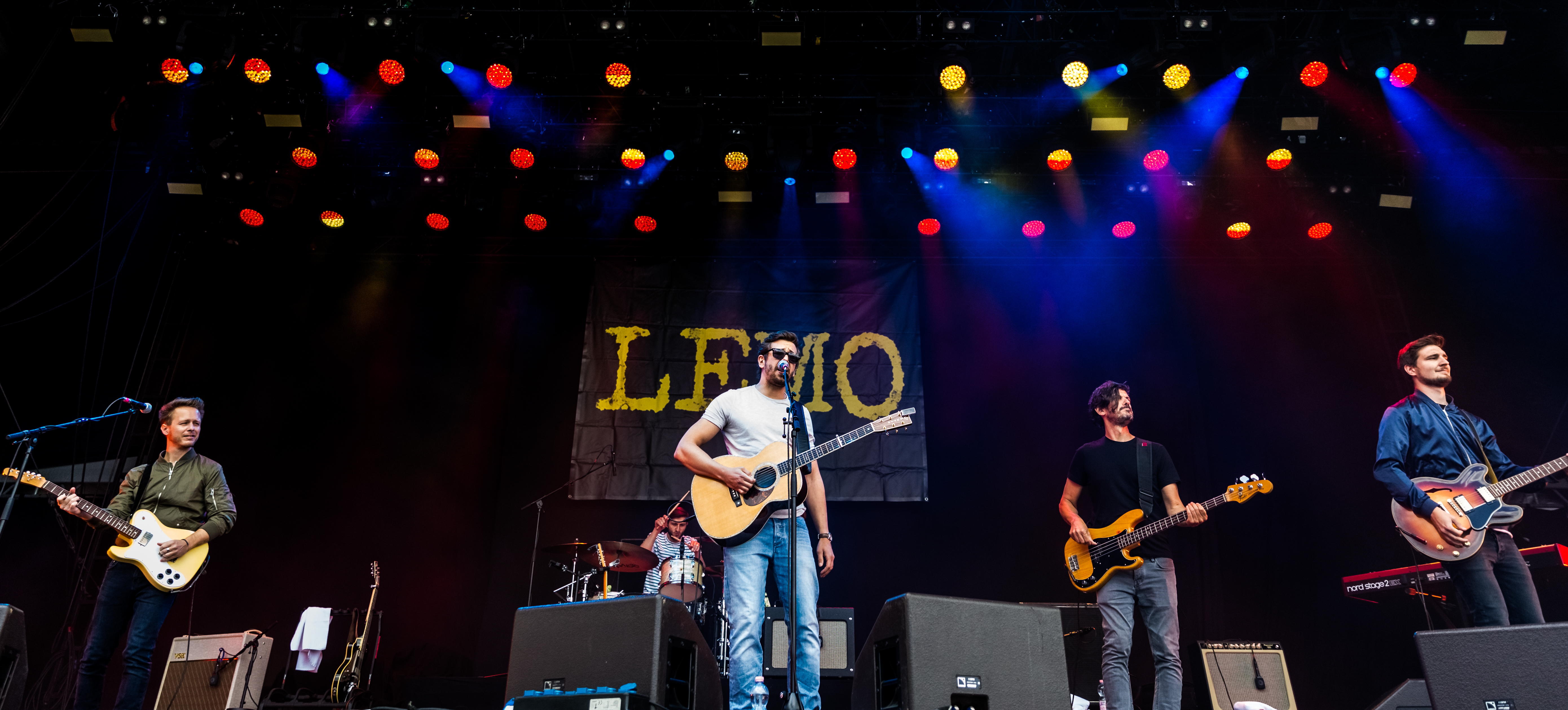 Lemo - Rock am RIng 2017